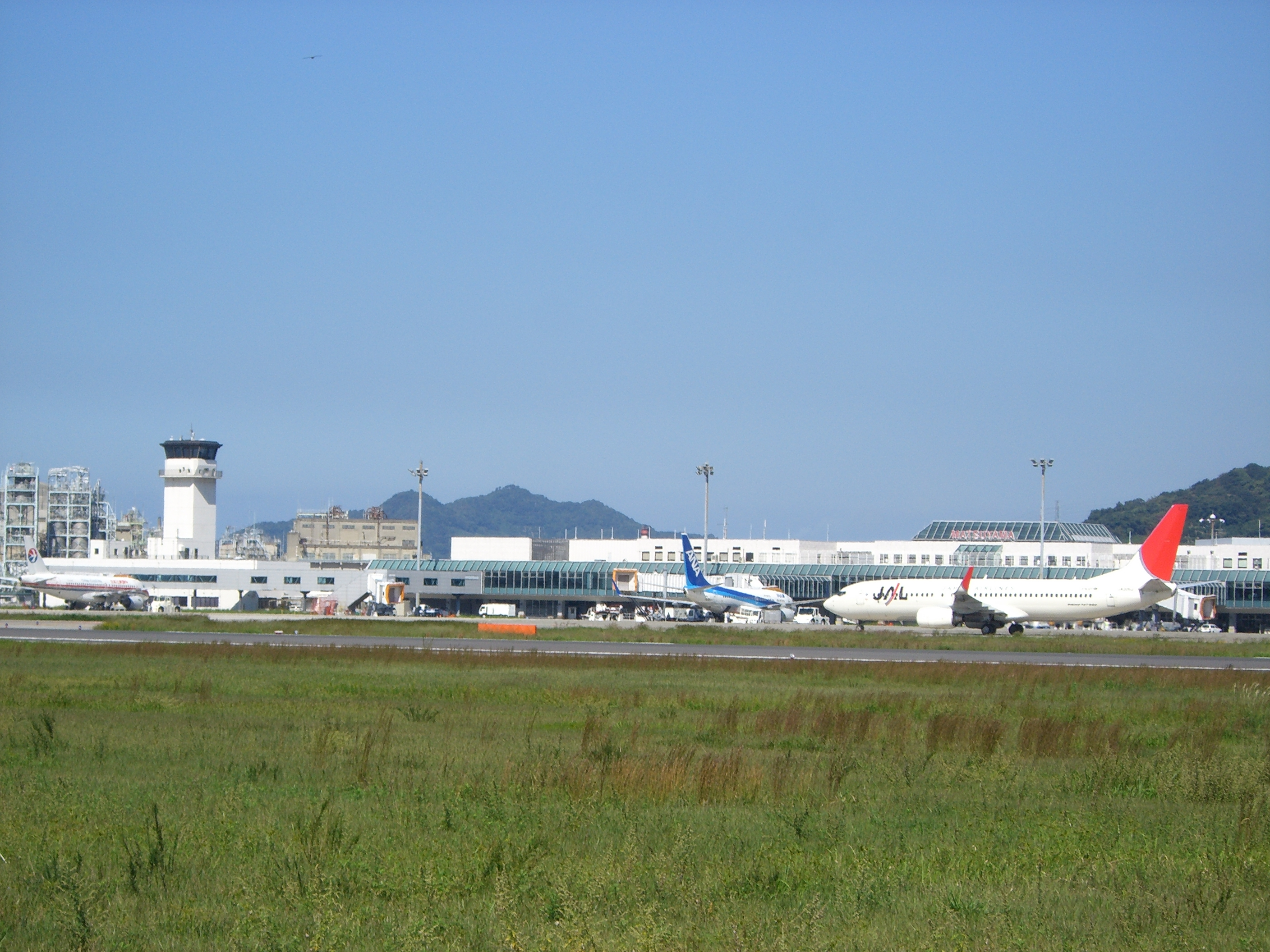 "MYJ" Matsuyama airport has developed into one of the major regional hubs of japan domestic air travel with the extension of the airstrip to 2,500 meters and the completion of the new terminal building in 1991.